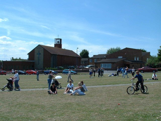 Glencoyne Square - Southmead. A peaceful day at the local summer fair in one of Bristol's less privileged suburbs.